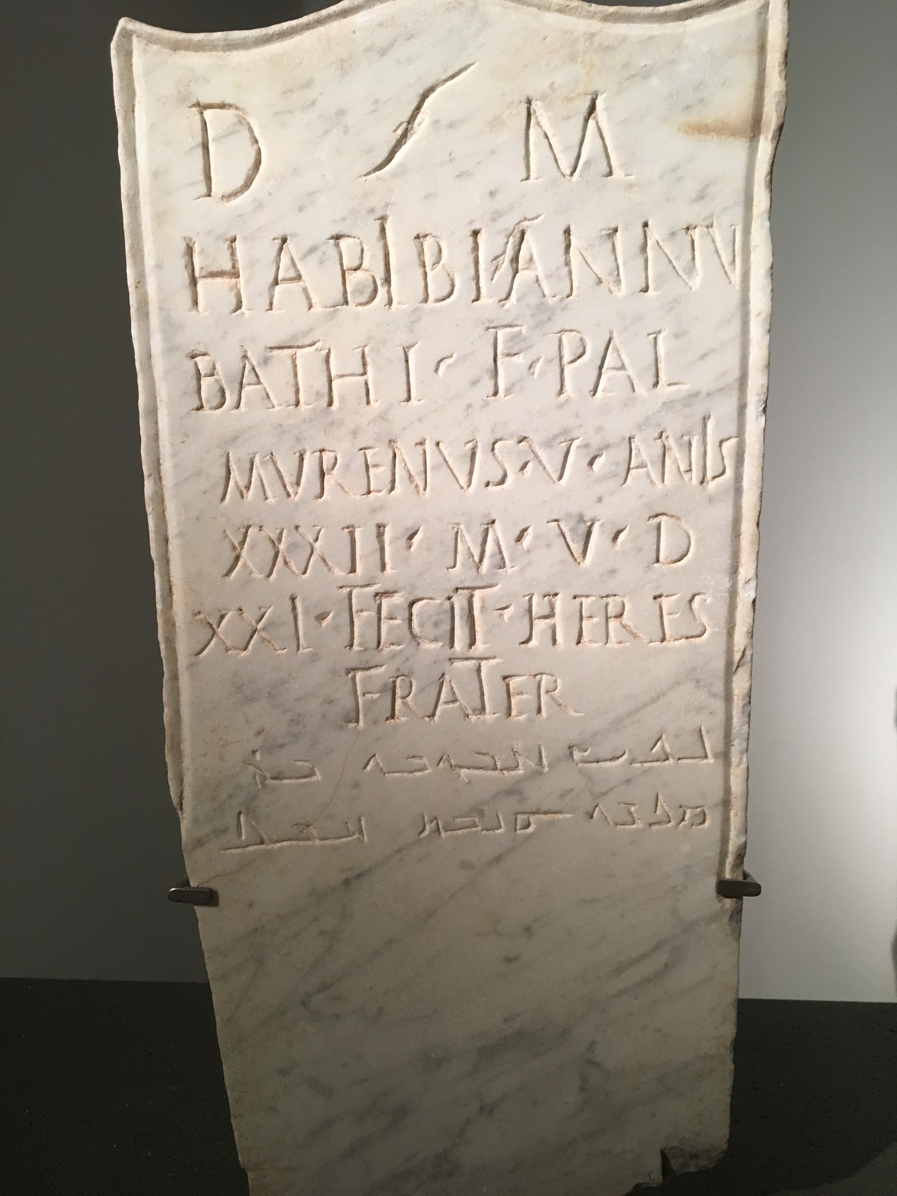 D M HABIBI ANNV BATHI F PAL MVRENSVS ANIS XXXII M V D XXI FECIT HERES FRATER D(is) M(anibus) / Habibi Annu/bathi f(ilii) Pal/murenus v(ixit) an(n)is / XXXII m(ensibus) V d(iebus) / XXI fecit heres / frater CIL VI, 19134=EDR 116526